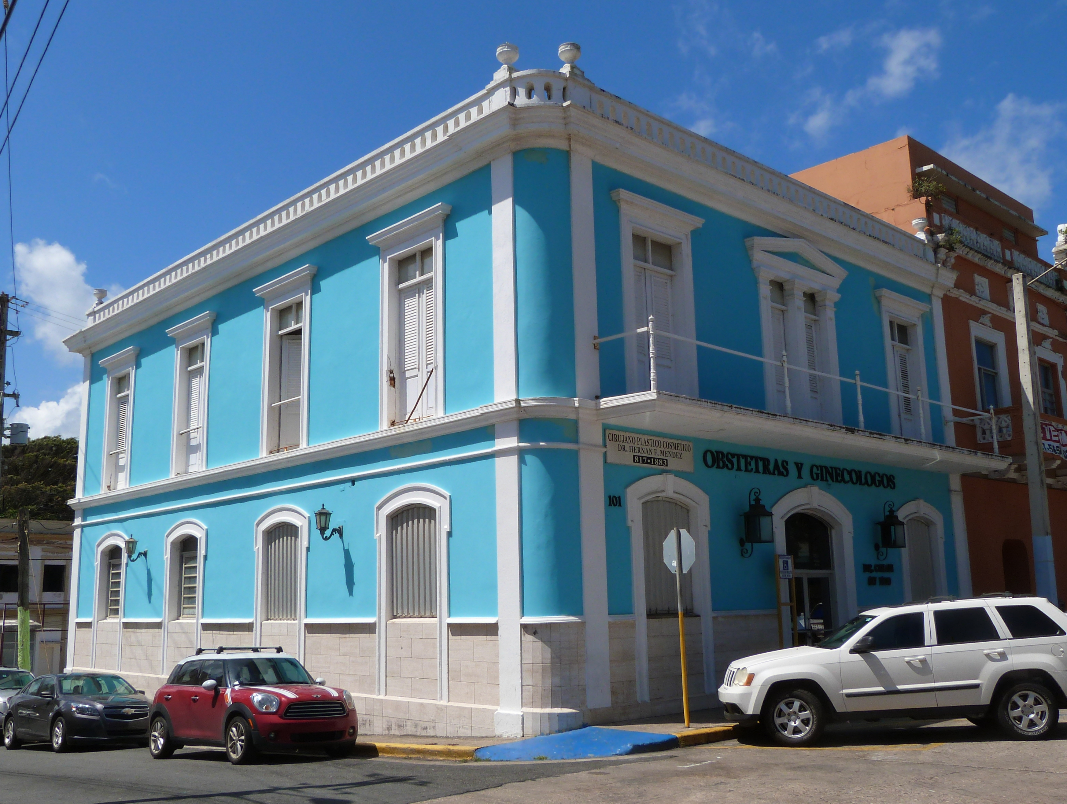 The historic building at Calle Gonzalo Marín #101 (built 1908) in Arecibo, Puerto Rico, is listed on the U.S. National Register of Historic Places.